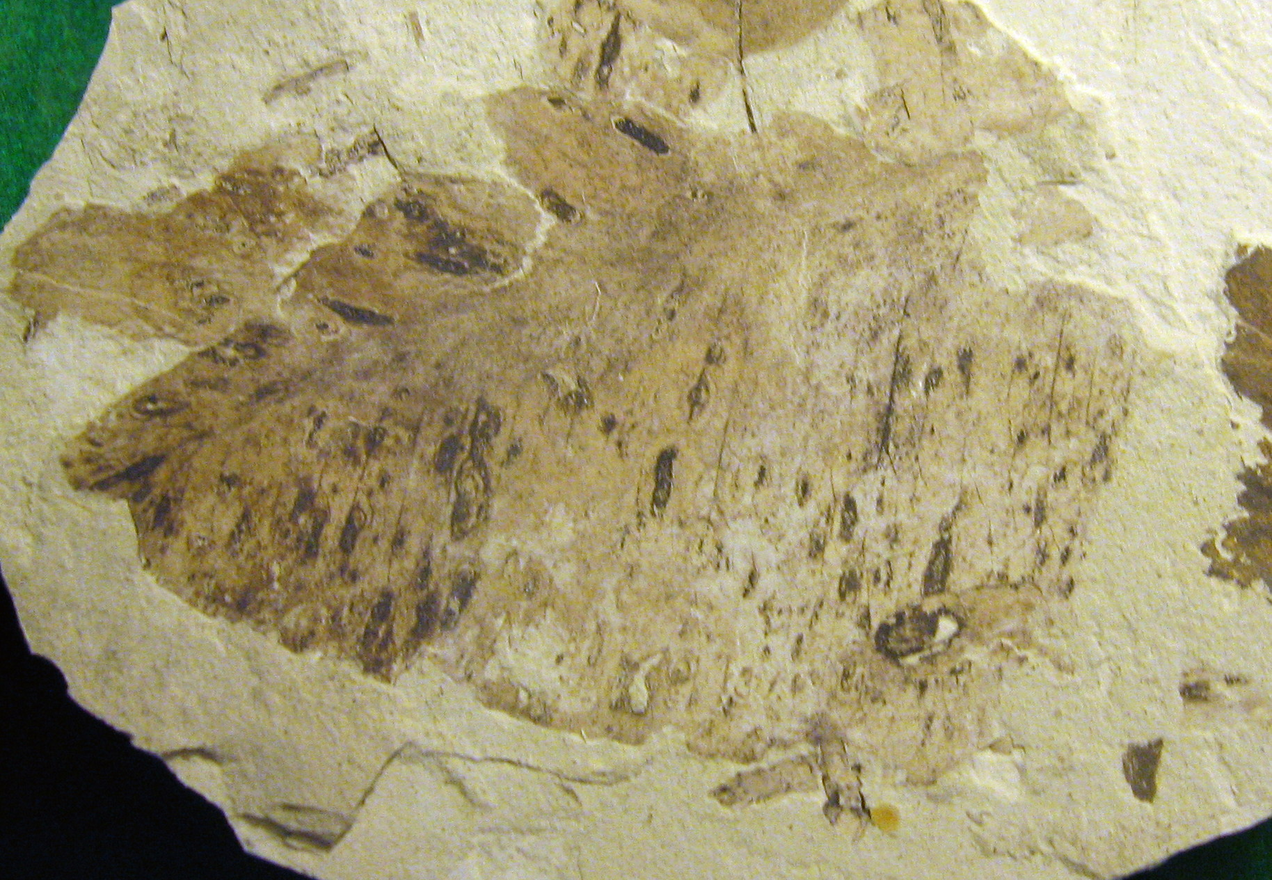 A nearly complete leaf of the extinct Orontium wolfei. 48.5 million years old, Klondike Mountain Formation, Ferry County, Washington, USA. Stonerose Interpretive Center specimen # SR ??-??-??.